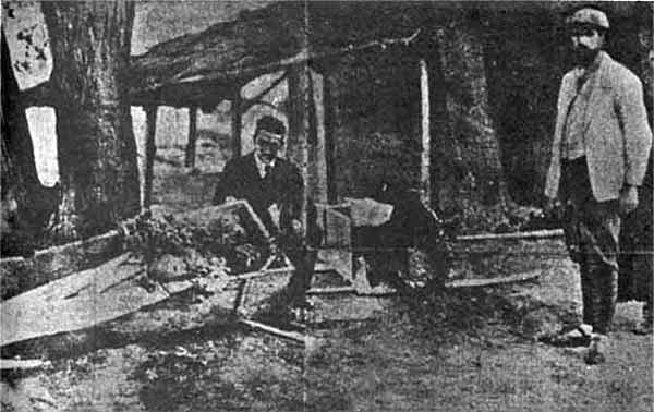 Todor Alexandrov on his Deathbed